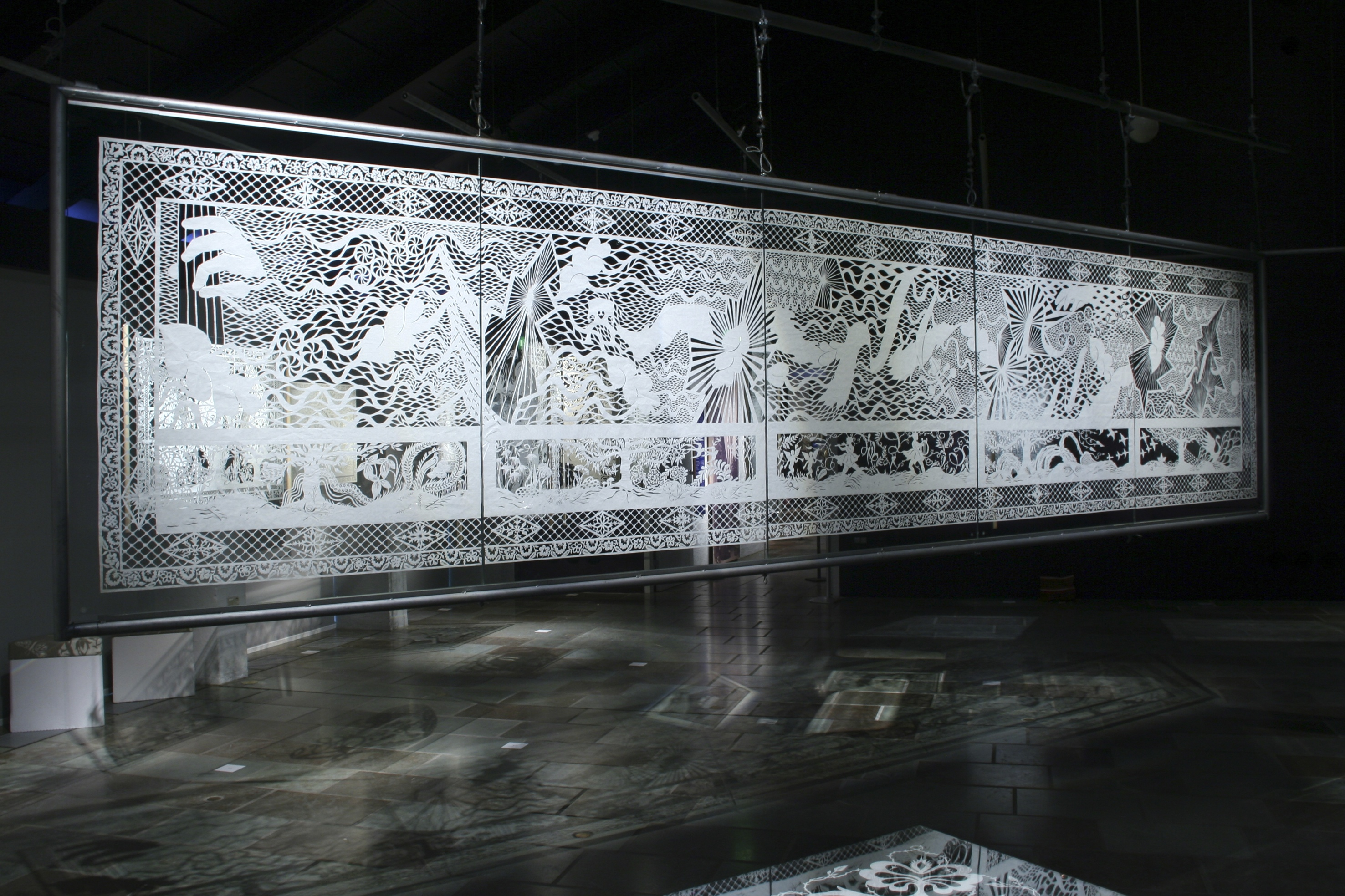 The psaligraphic work The fifth season by the Danish/Norwegian designer Karen Bit Vejle. The size of the work: 5x1,05 meters